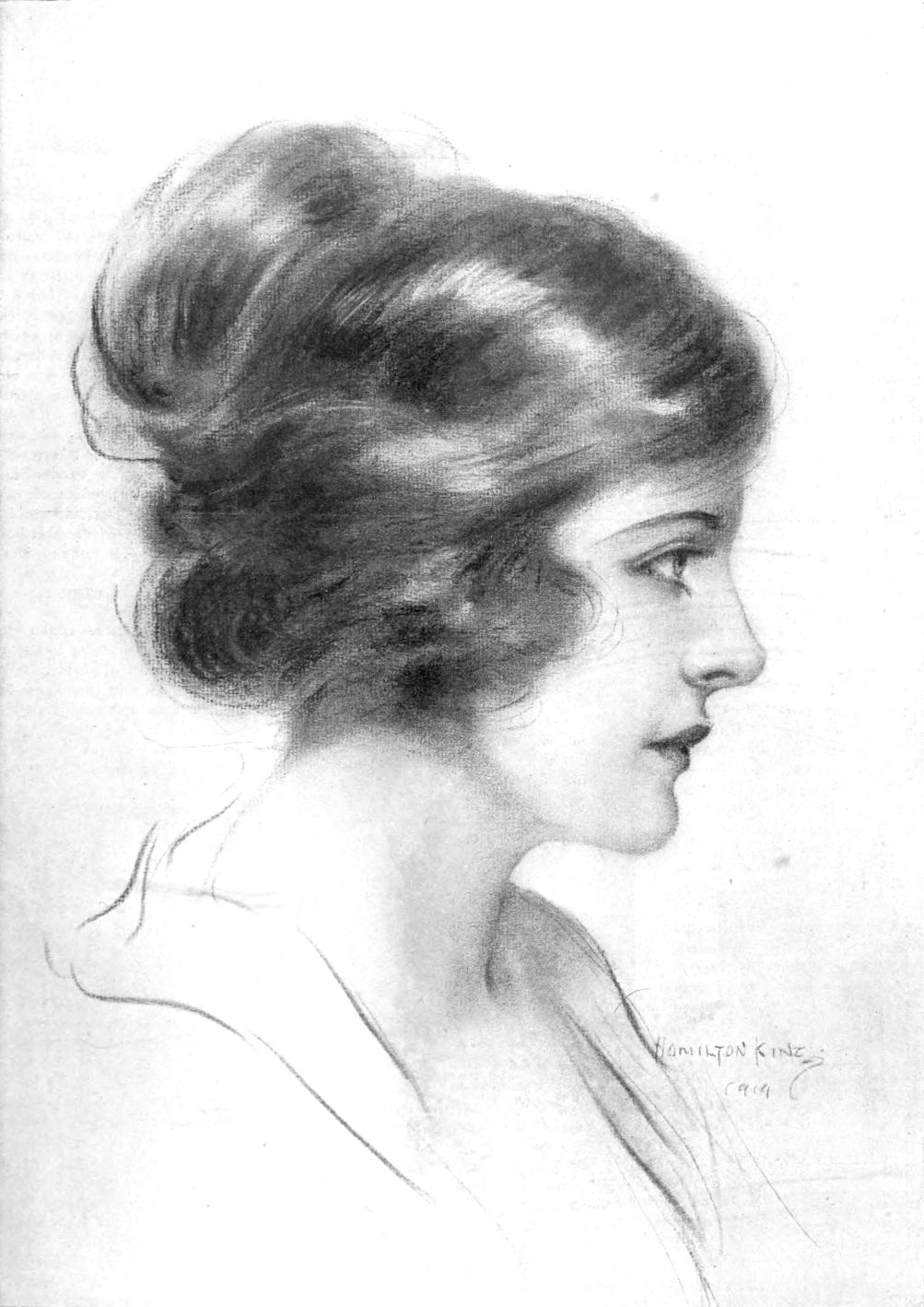 Charcoal portrait of actress Lillian Kemble Cooper